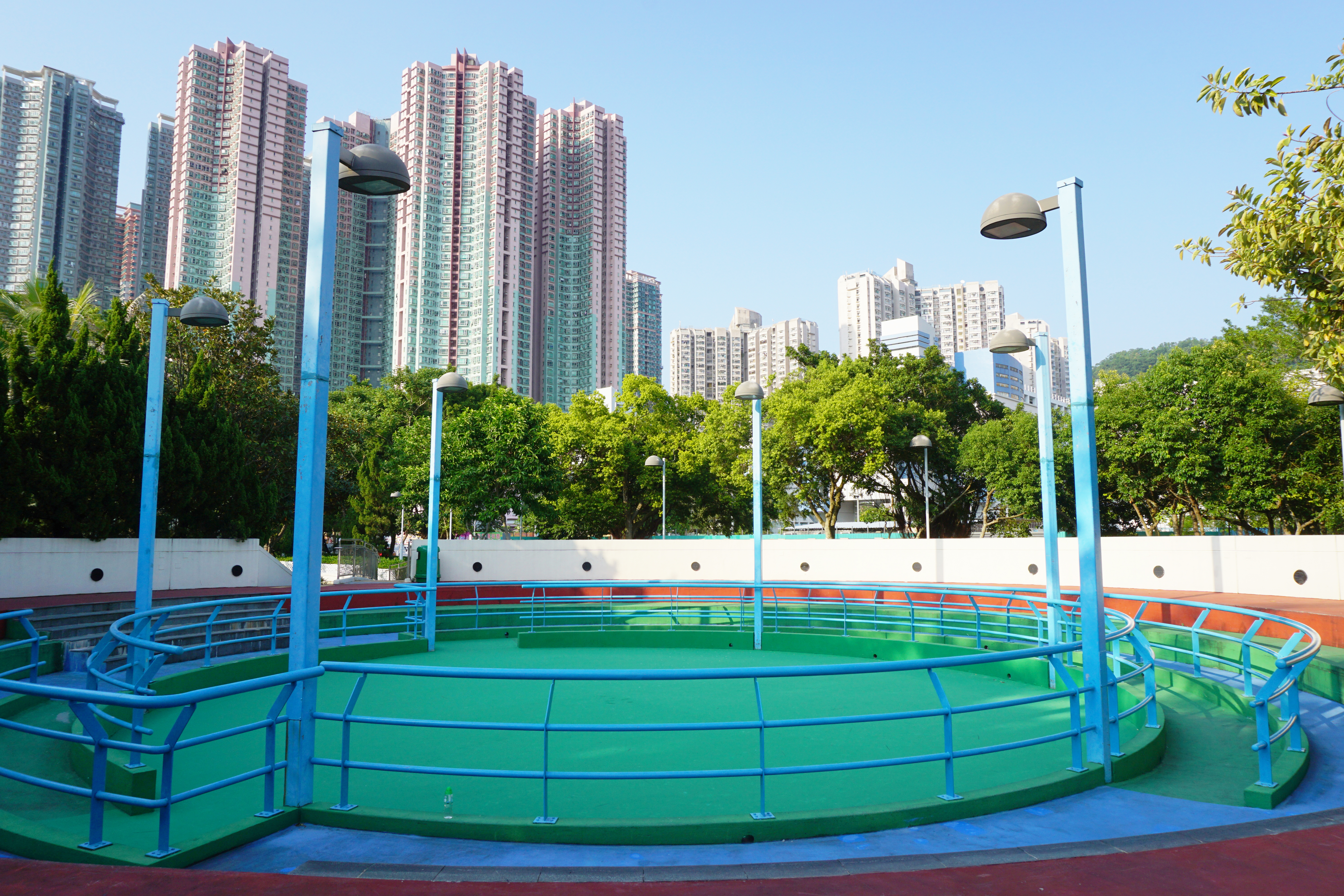 Po Hong Park in Po Lam, Hong Kong.